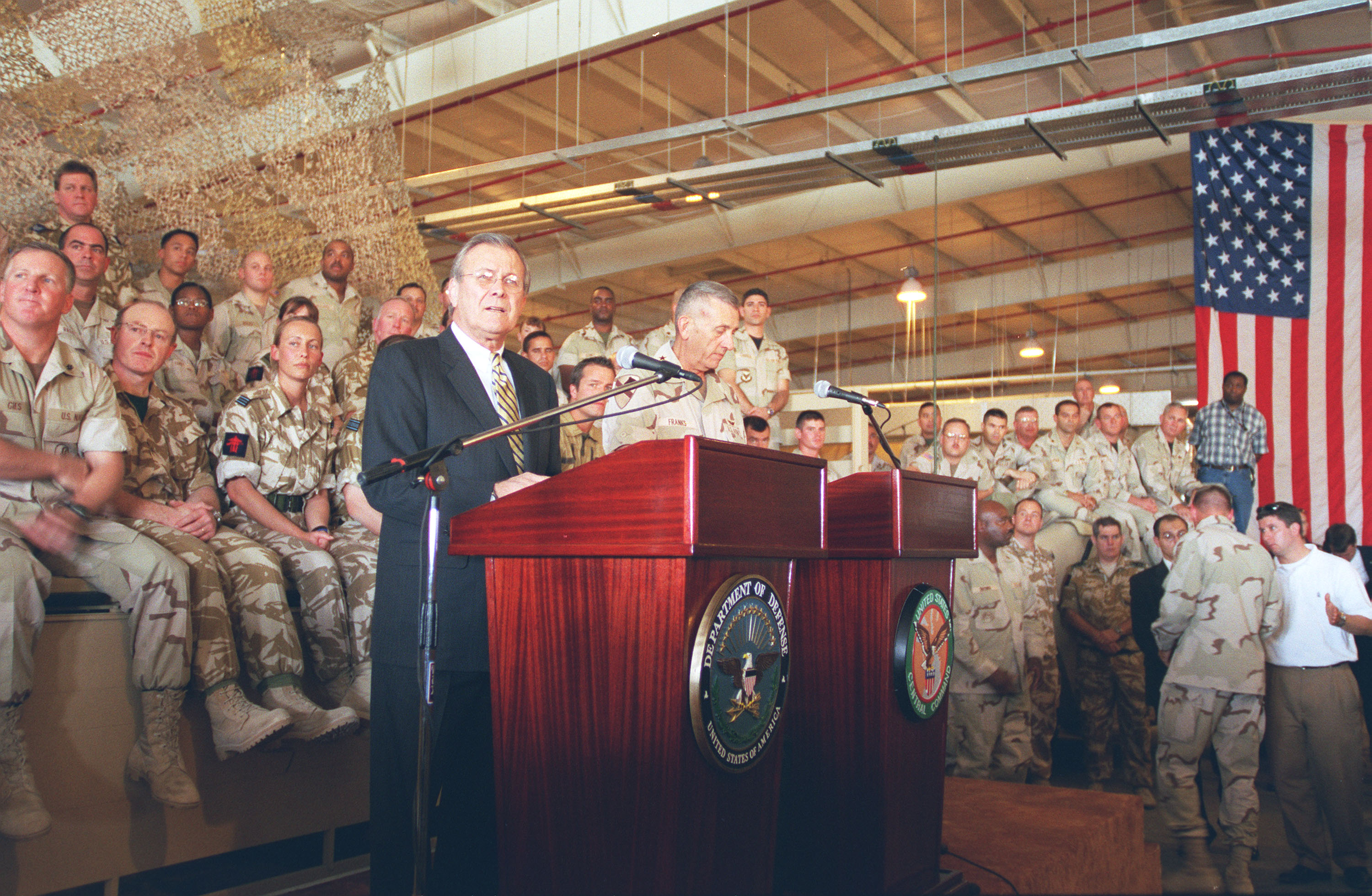 Secretary of Defense Donald H. Rumsfeld (left) and Gen. Tommy Franks, U.S. Army, listen to a question during a town hall meeting at As Sayliyah Military Camp, Qatar, on Dec. 12, 2002. Rumsfeld is in Qatar to meet with U.S. personnel at the Central Command forward headquarters and its supporting units.